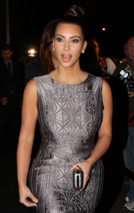 Kardashian in Sydney, Australia for E! News: Red carpet and dinner at Nield Ave 2012.